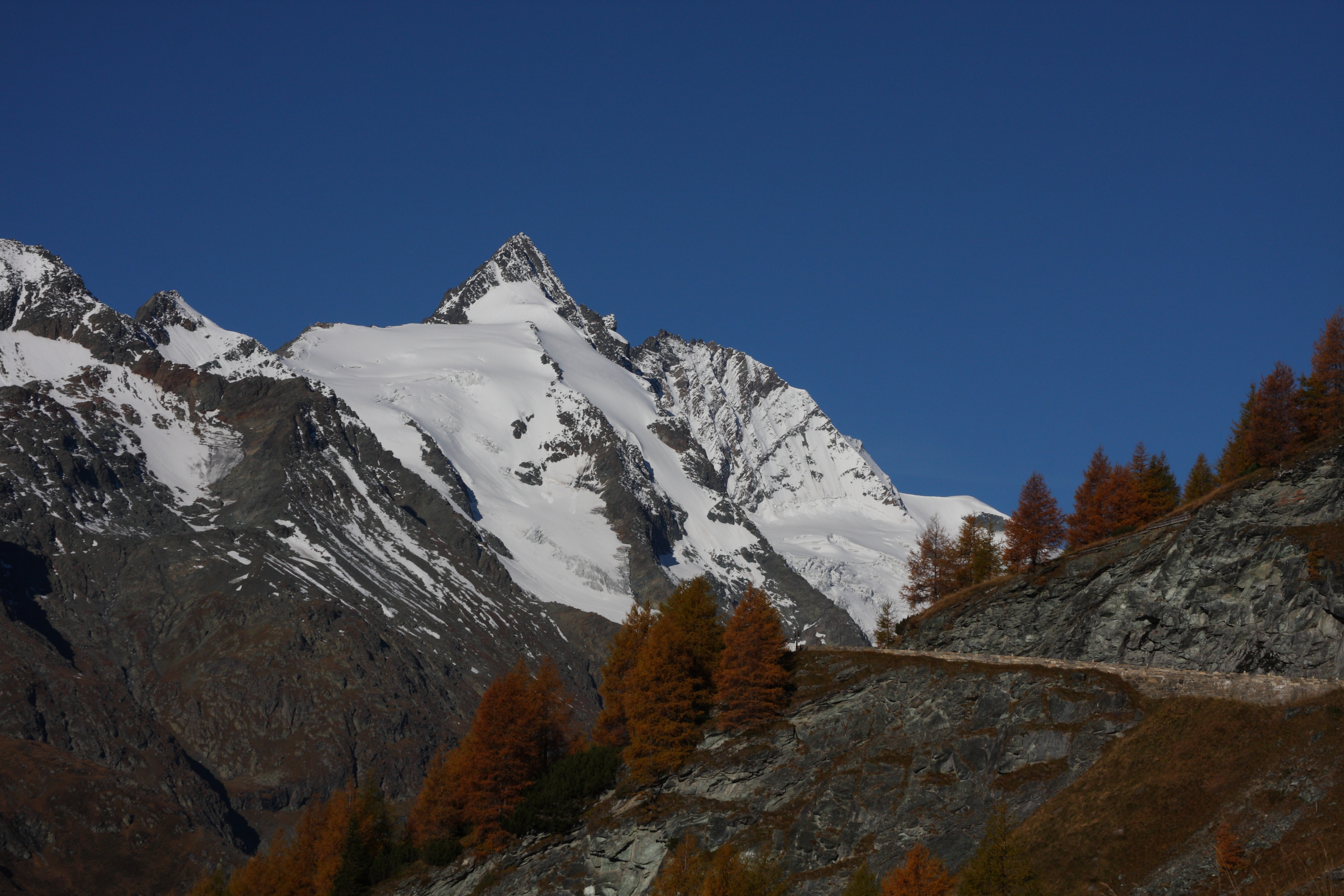 Grossglockner High Alpine Road, Austria